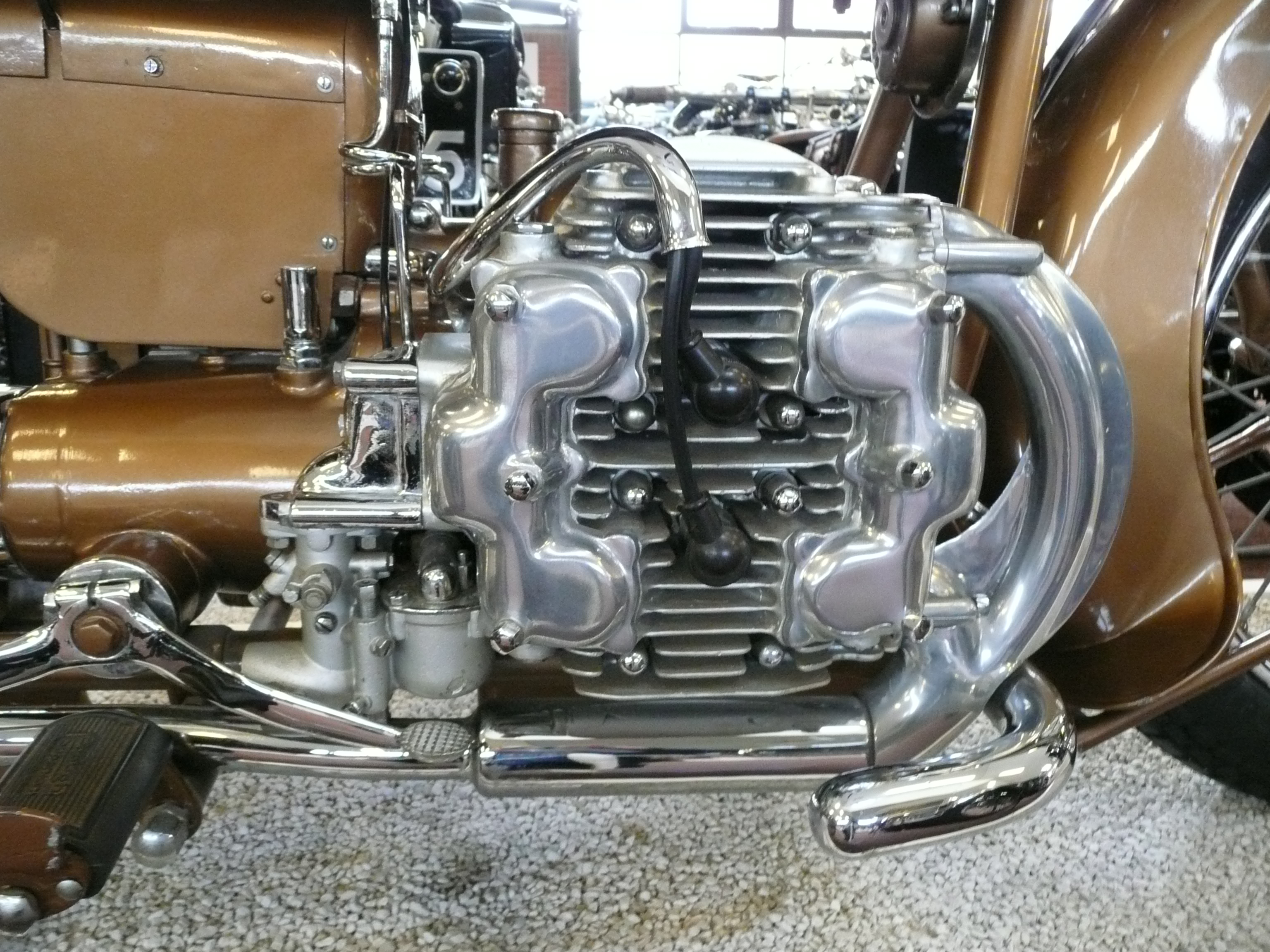 Brough Superior Golden Dream (close up)